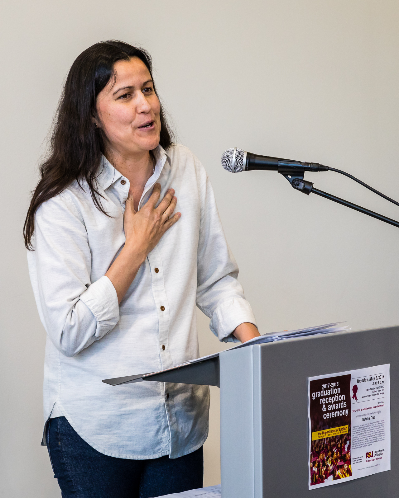 Natalie Diaz reading from her poetry. The ASU Department of English celebrated our 2017-2018 graduates and award-winners! Our featured speaker was assistant professor Natalie Diaz, who performed a reading from her poetry. Diaz was born and raised in the Fort Mojave Indian Village in Needles, California, on the banks of the Colorado River. She is Mojave and an enrolled member of the Gila River Indian Tribe. Her first poetry collection, When My Brother Was an Aztec, was published by Copper Canyon Press. She is a Lannan Literary Fellow and a Native Arts Council Foundation Artist Fellow. She was awarded a Bread Loaf Fellowship, the Holmes National Poetry Prize, a Hodder Fellowship, and a PEN/Civitella Ranieri Foundation Residency, as well as being awarded a US Artists Ford Fellowship. Diaz teaches at the Arizona State University Creative Writing MFA program. She splits her time between the east coast and Mohave Valley, Arizona, where she works to revitalize the Mojave language. May 8th, 2018 ASU Tempe campus